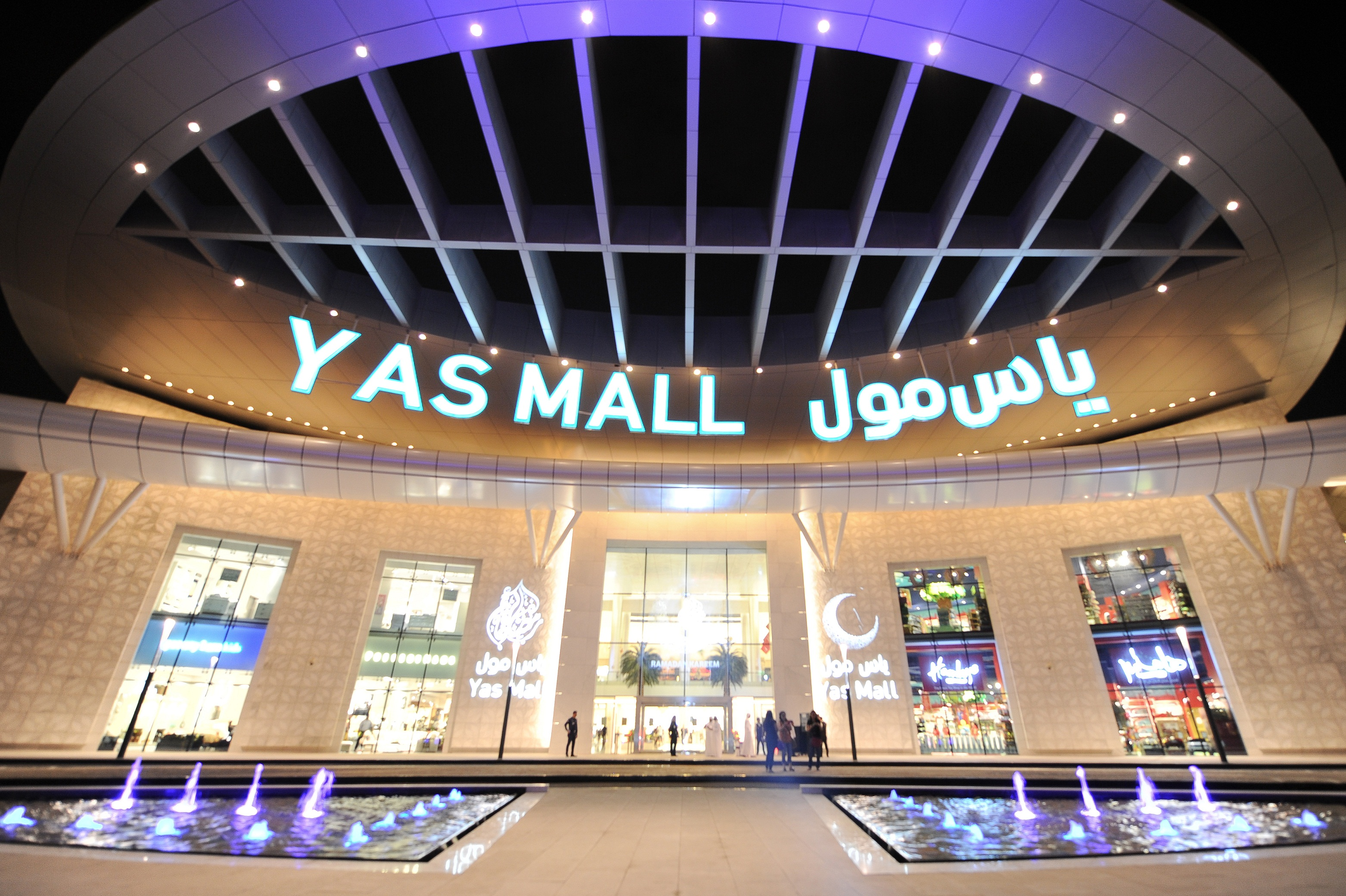 Front View of Yas Mall at night